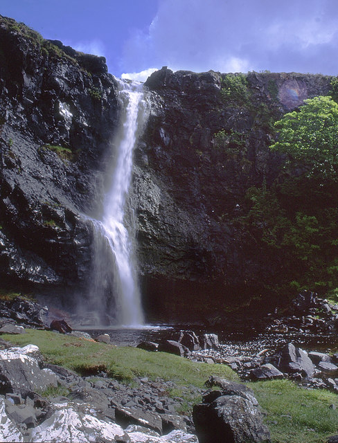 Eas Fors from the shoreline